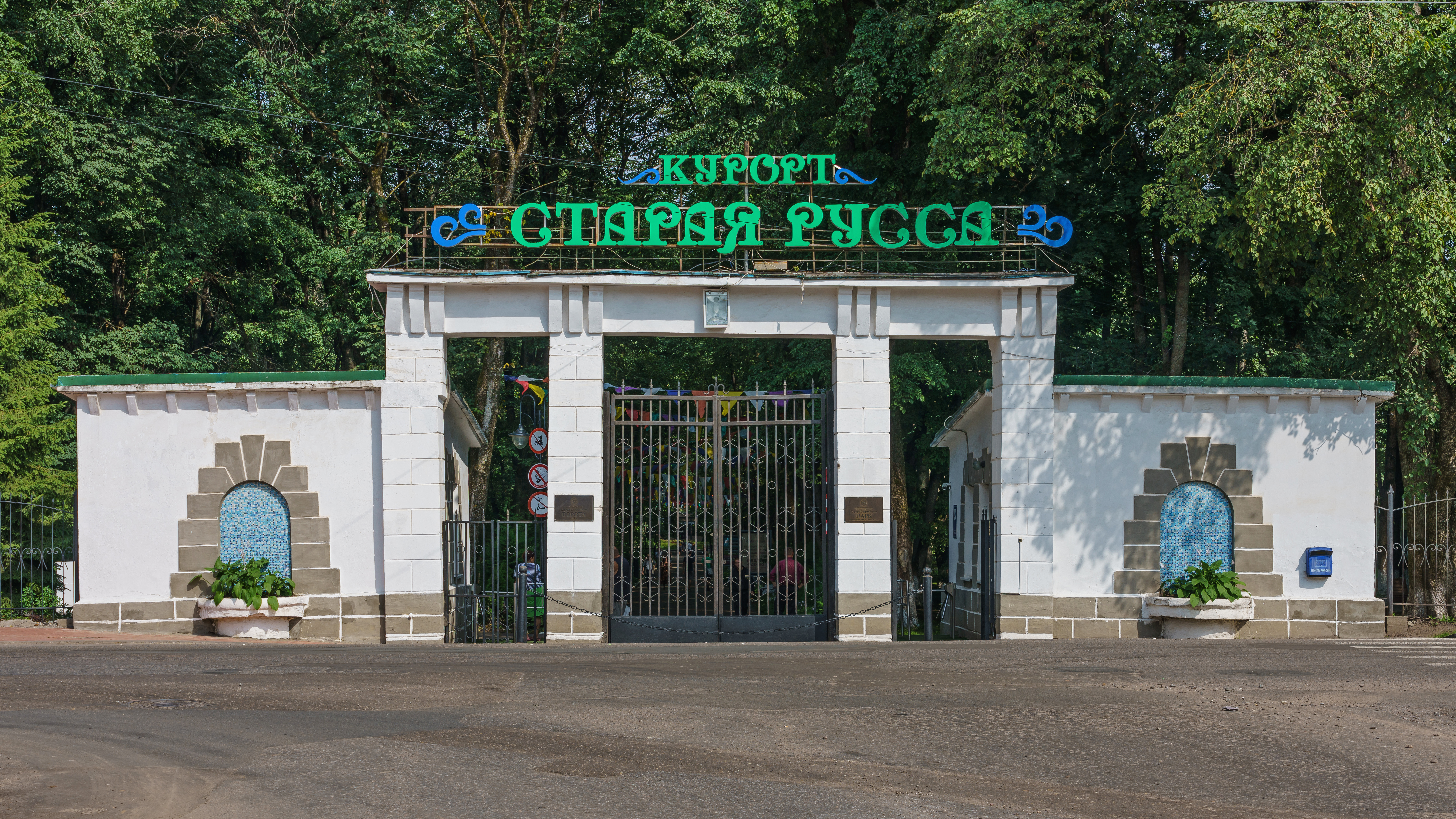 Gate of the Resort in Staraya Russa, Novgorod Oblast, Russia